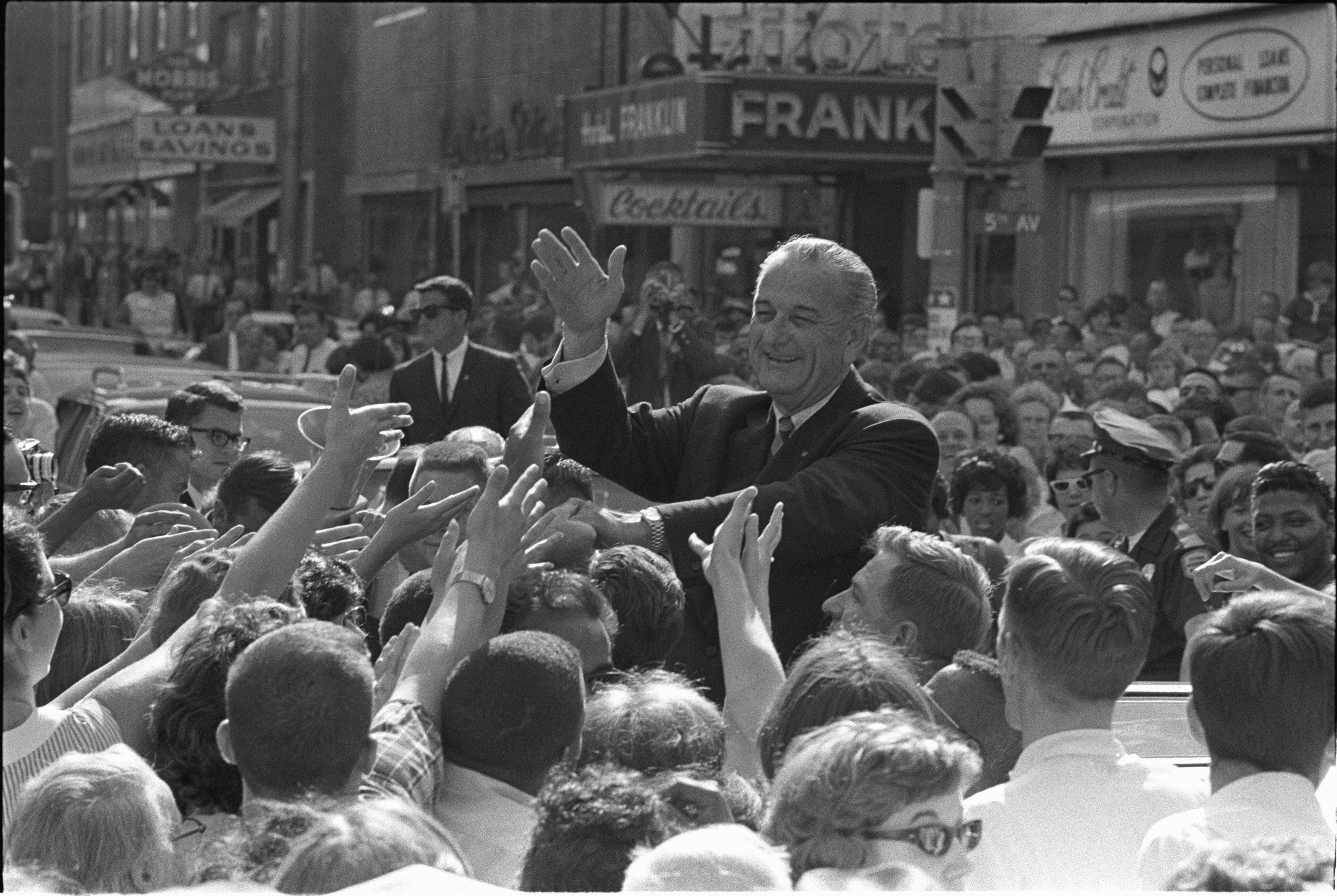 President Lyndon B. Johnson shakes hands with crowd members